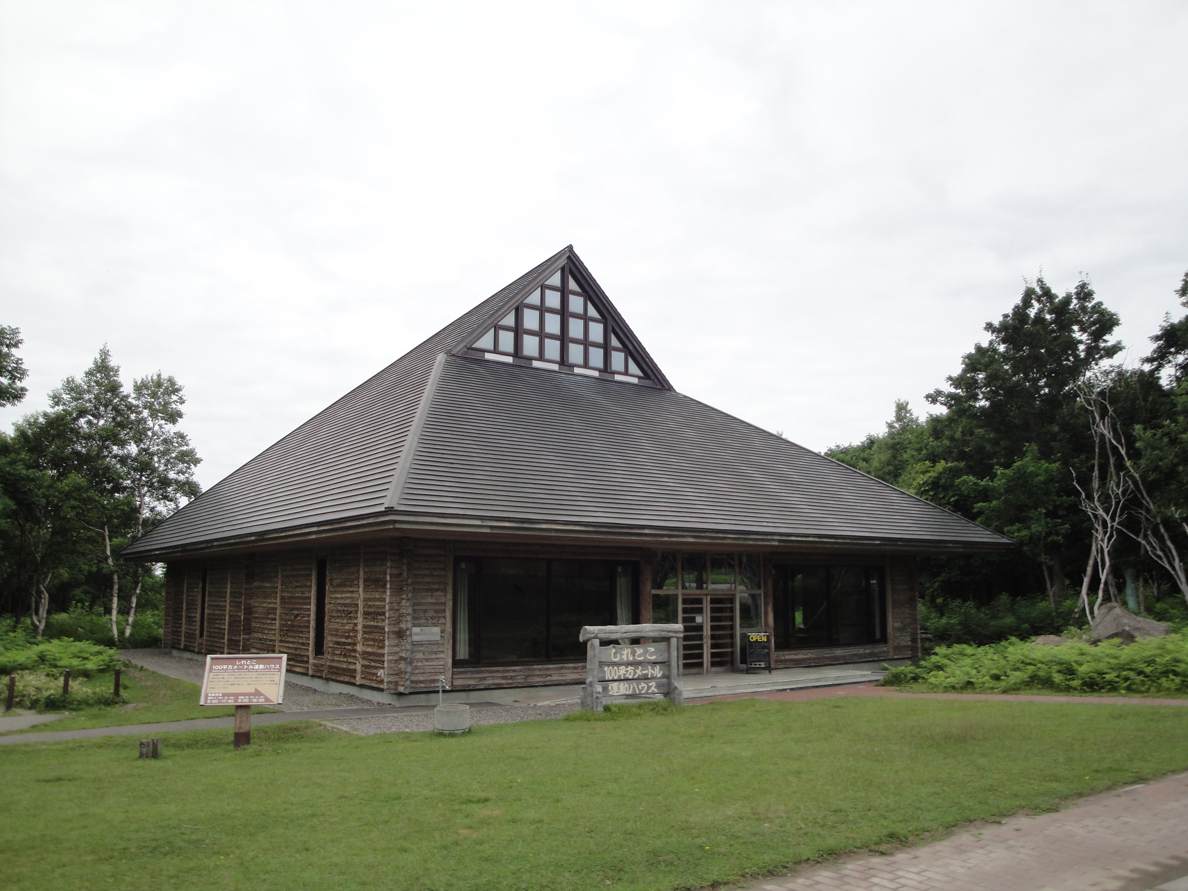 Shiretoko 100 Square-Meter Movement Trust House